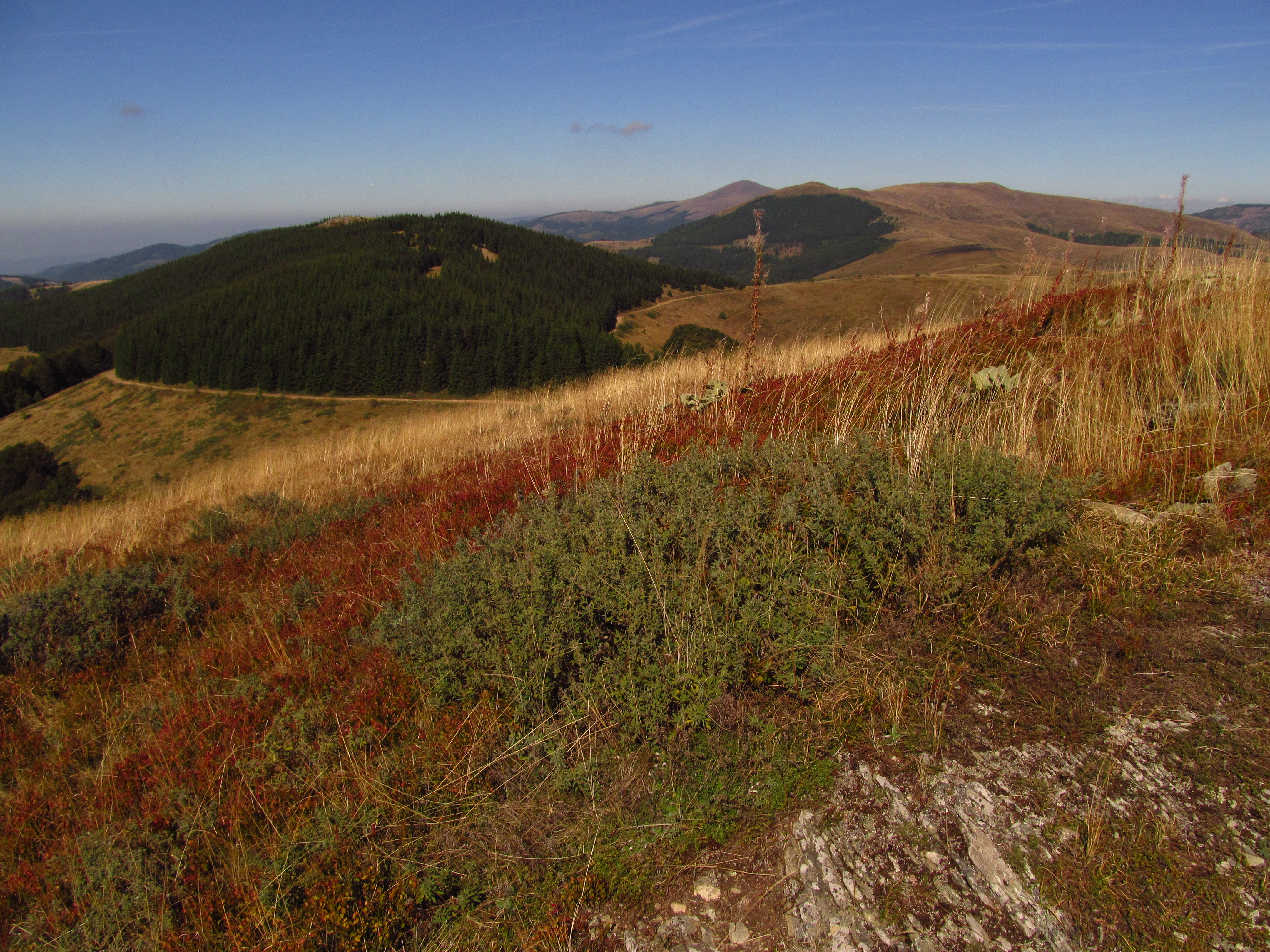 Bruckenthalia heaths habitat, EUNIS F2.26, at mountain Besna Kobila (SE Serbia). Српски (ћирилица): Вриштине са Bruckenthalia spiculifolia (станиште EUNIS F2.26) на Бесној кобили (ЈИ Србија).